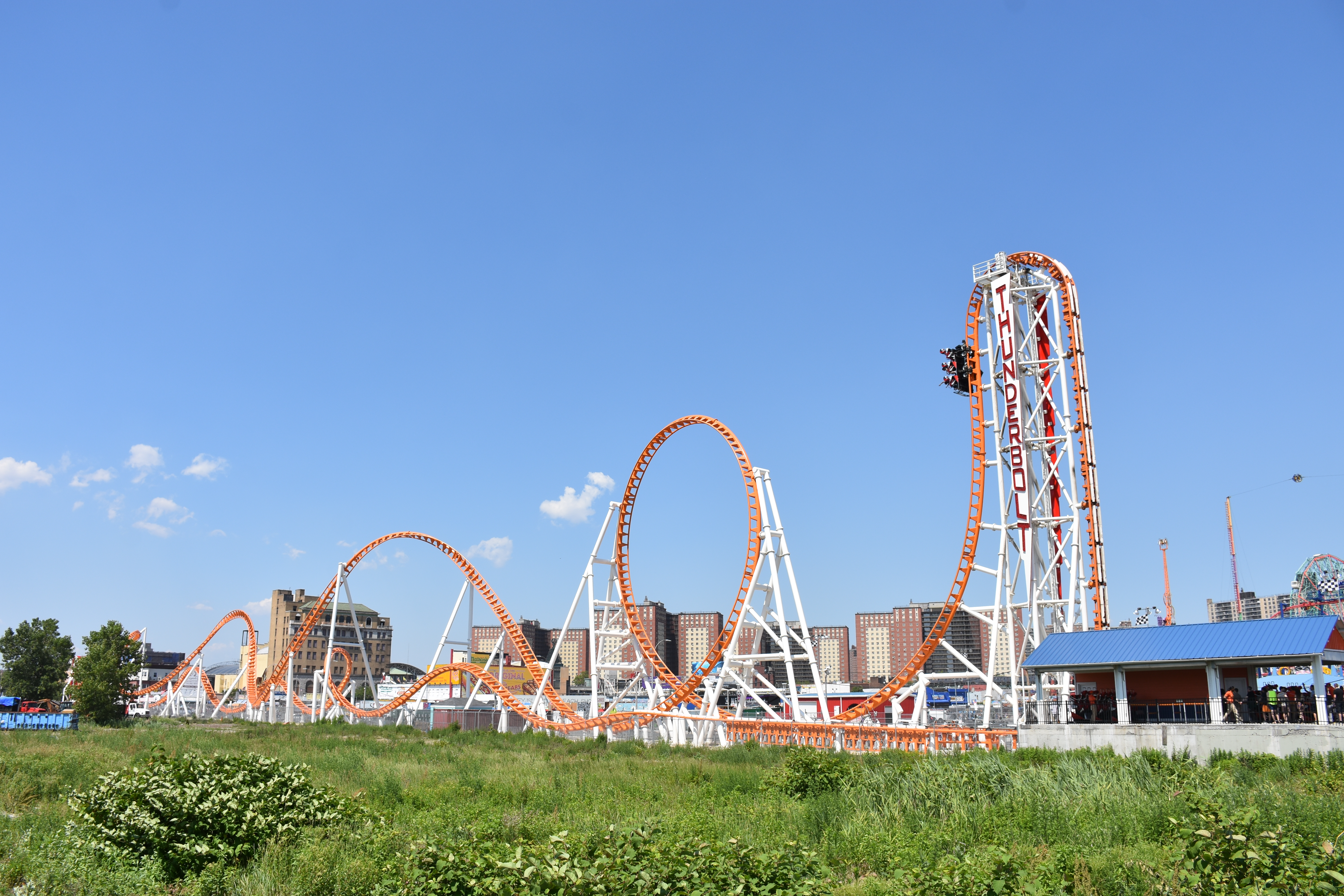 The Thunderbolt roller coaster in Coney Island, New York City in June 2016